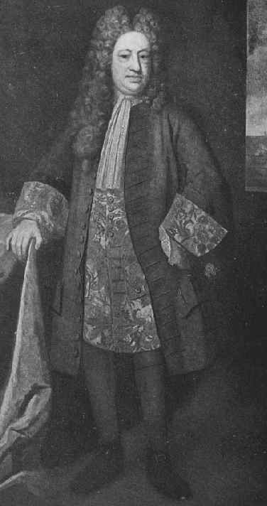 Elihu Yale first benefactor and namesake of Yale University. Painted by Enoch Zeeman in 1717.